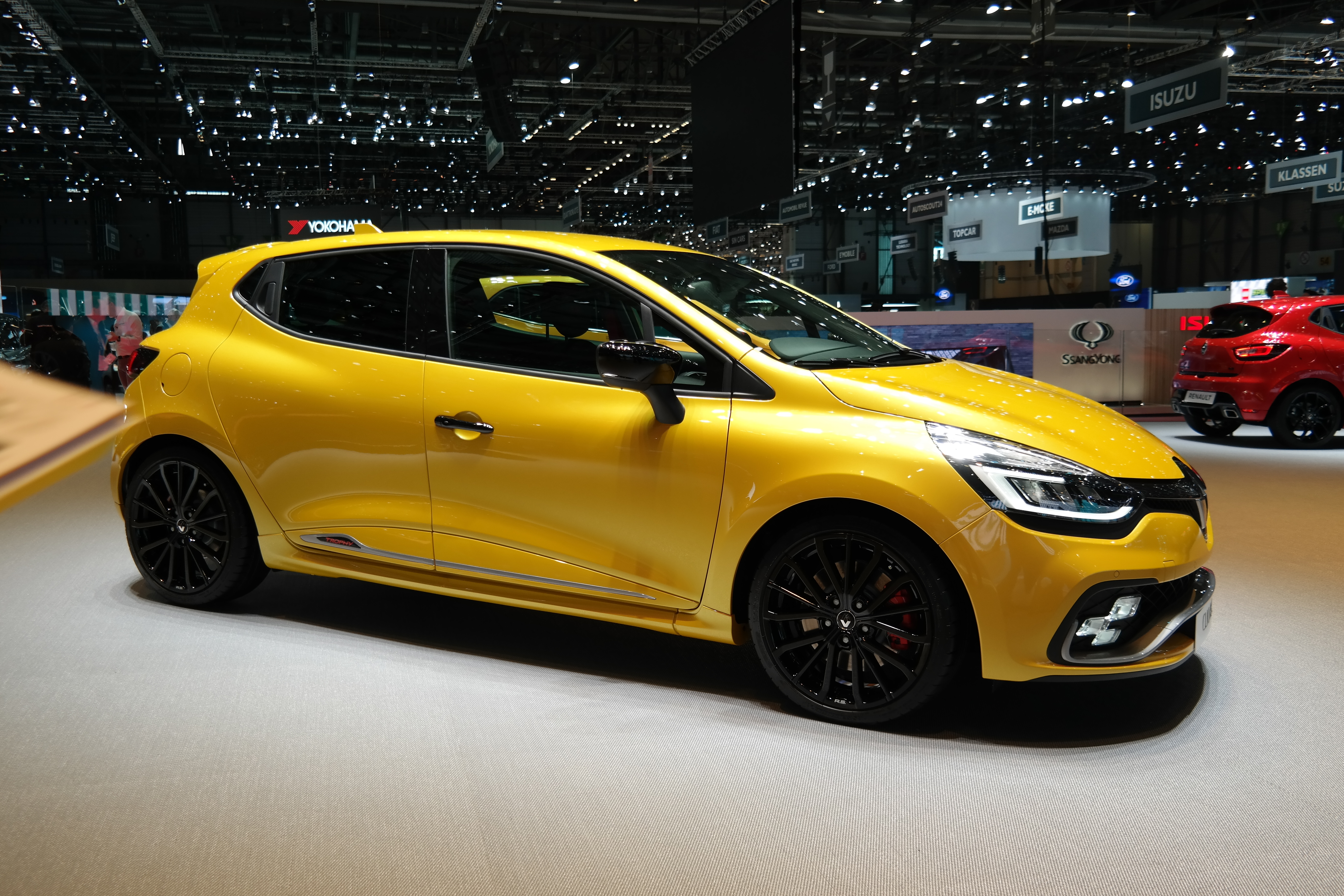 Geneva Motor Show 2018 (photo taken on the first press day)